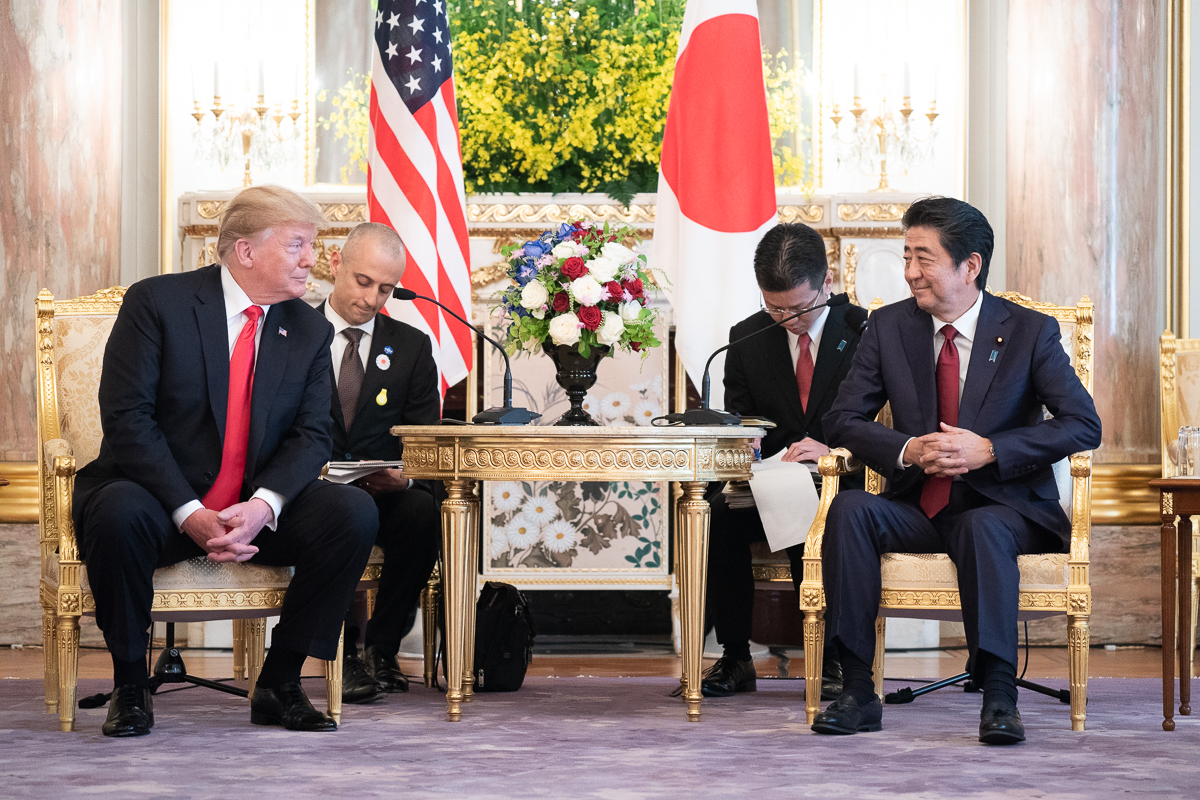 President Donald J. Trump participates in an expanded bilateral meeting with Japan’s Prime Minister Shinzo Abe Monday, May 27, 2019, at the Akasaka Palace in Tokyo. (Official White House Photo by Shealah Craighead)